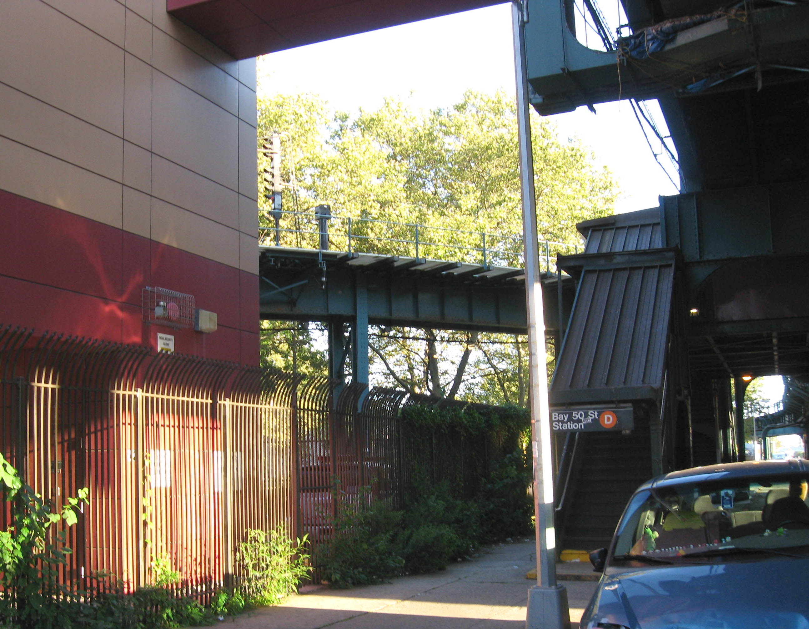 Looking southeast at connection of Bay 50th Street (BMT West End Line) to Coney Island Yard on a sunny late afternoon. Powerhouse is on left.